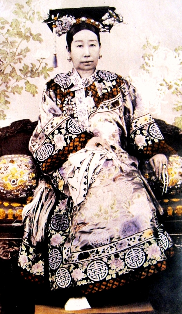 An official photographic portrait of Empress Dowager Cixi (29 November 1835 – 15 November 1908), aged around 55 years. The photograph was coloured by Imperial Court painters according to reality.